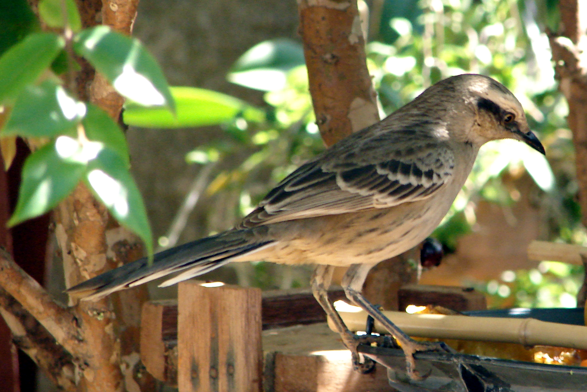 Chalk-browed Mockingbird (Mimus saturninus), (Brazil:Sabiá-do-campo, Calhandra) feeding.